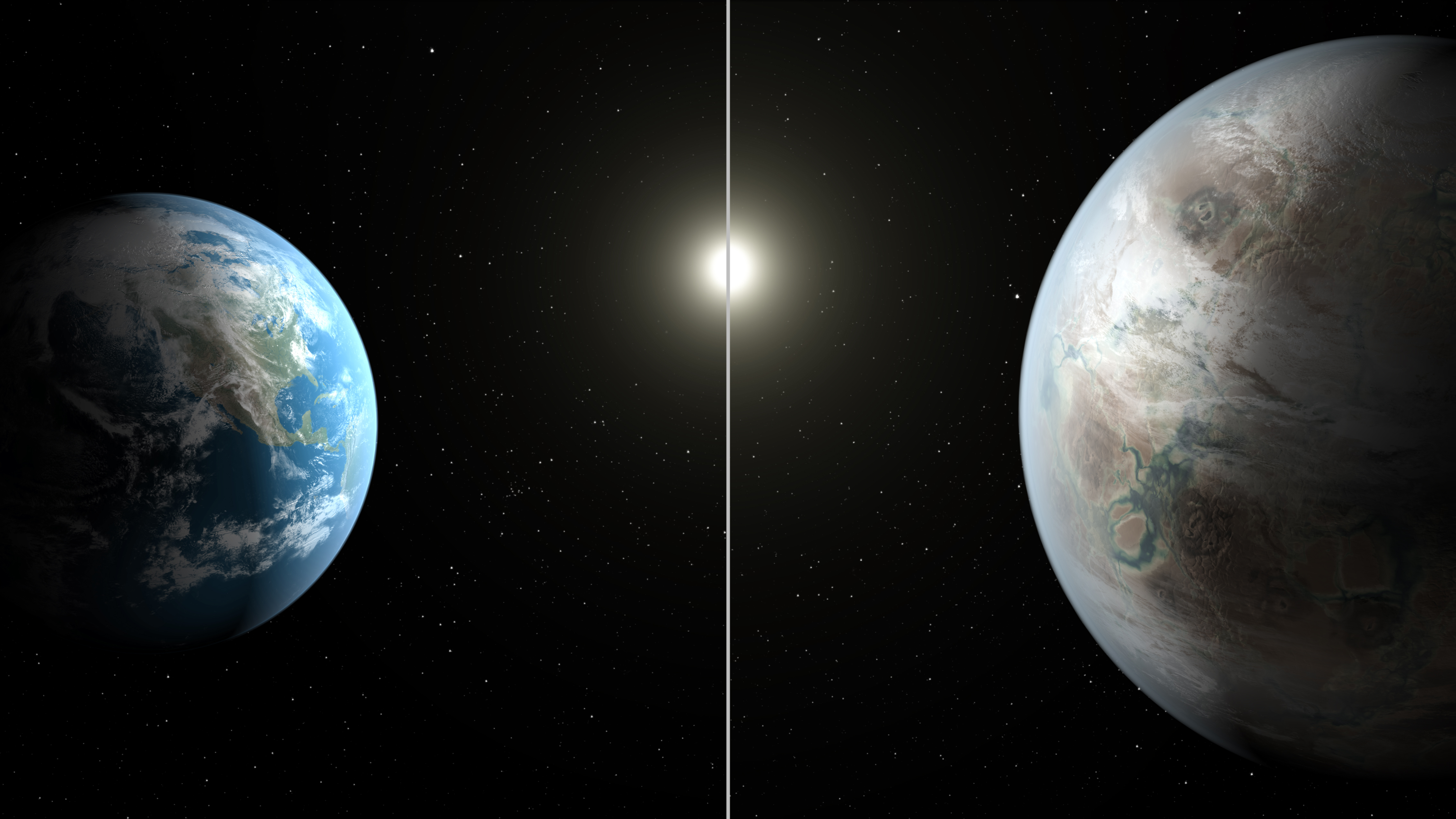 This artist's concept compares Earth (left) to the new planet, called Kepler-452b, which is about 60 percent larger in diameter.